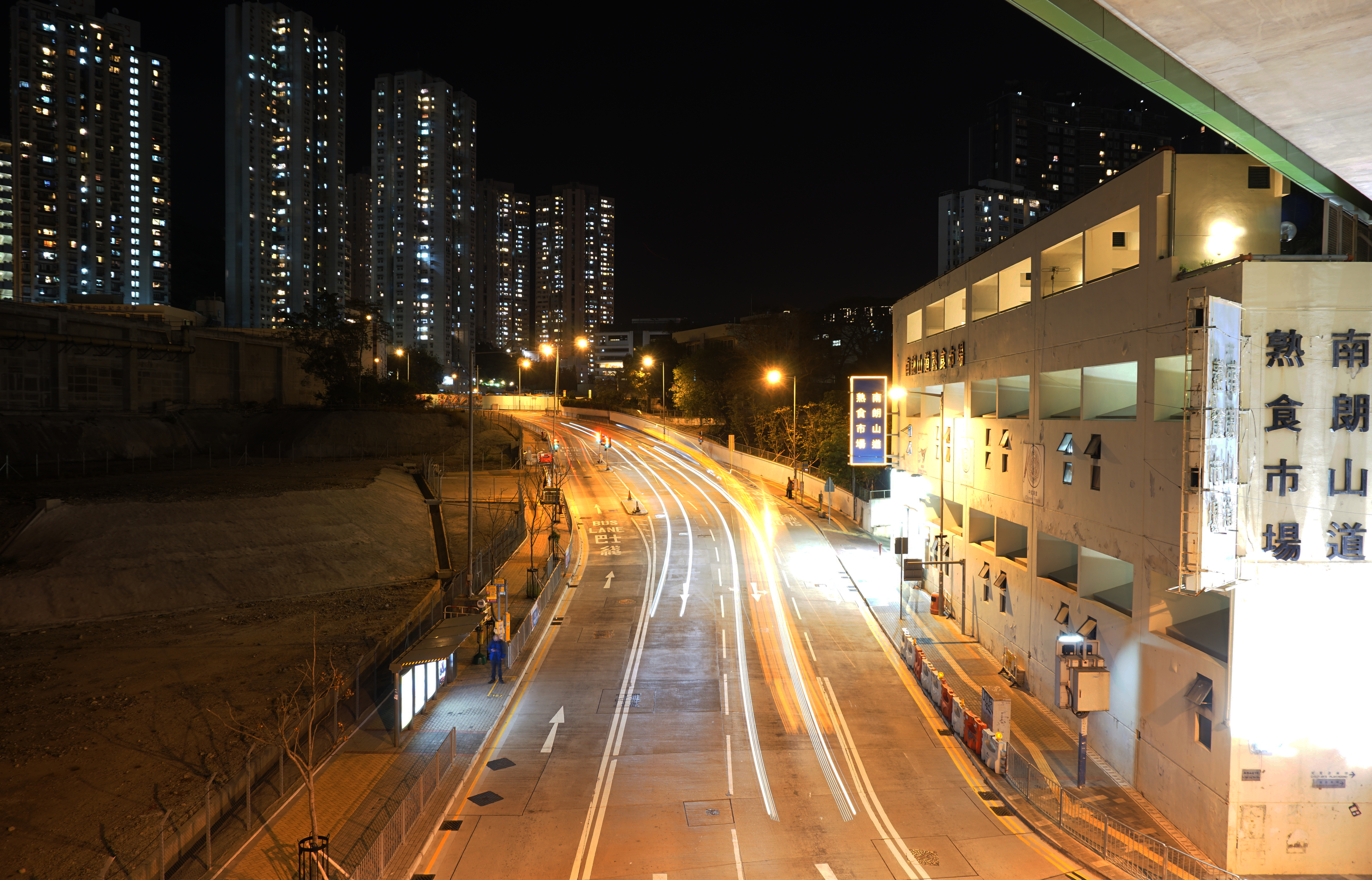 Nam Long Shan Road in Wong Chuk Hang, Hong Kong.